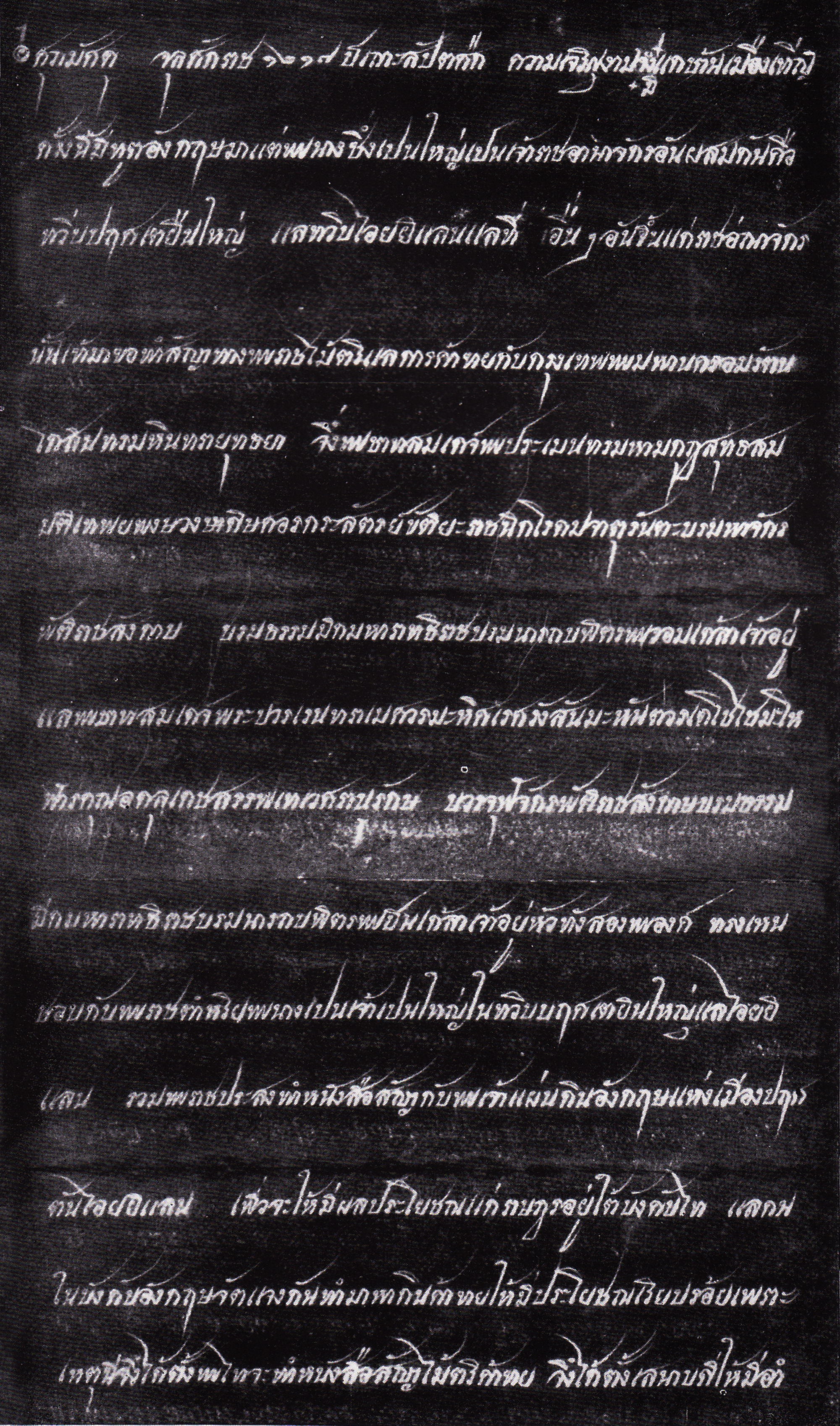 What: The Thai version of the Treaty of Friendship and Commerce between the Kingdom of Siam and the British Empire, dated April 18, 1855, also known as the Bowring Treaty, was written on Thai black books prior to being sent to the British Empire to further be affixed with her Great Seal of the Realm. At present, the original is kept at the National Library of Thailand, Bangkok. Where: The image is scanned from: "King Mongkut" : Photographs from the Reign of King Mongkut. (2004). (Second Edition). Bangkok : Matichon. ISBN 9743230866. Page 169.